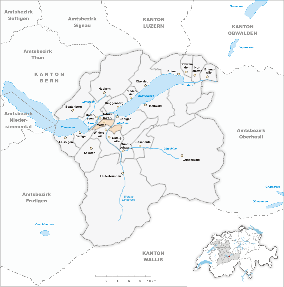 Municipality Matten bei Interlaken